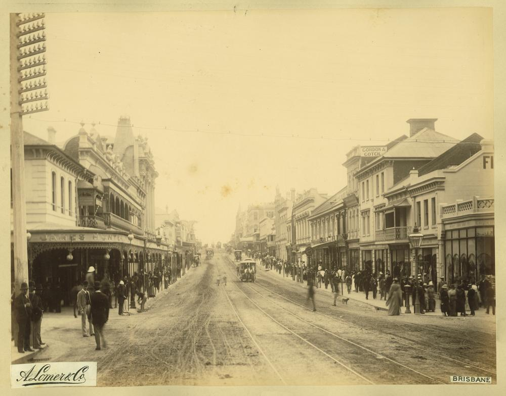 Busy Queen Street, Brisbane, 1889. Buildings line both sides of the street and people are milling on both footpaths. There is a horsedrawn trolley in the centre of the street, and several horsedrawn carriages further up the street. A large telegraph pole is on the left of the picture.